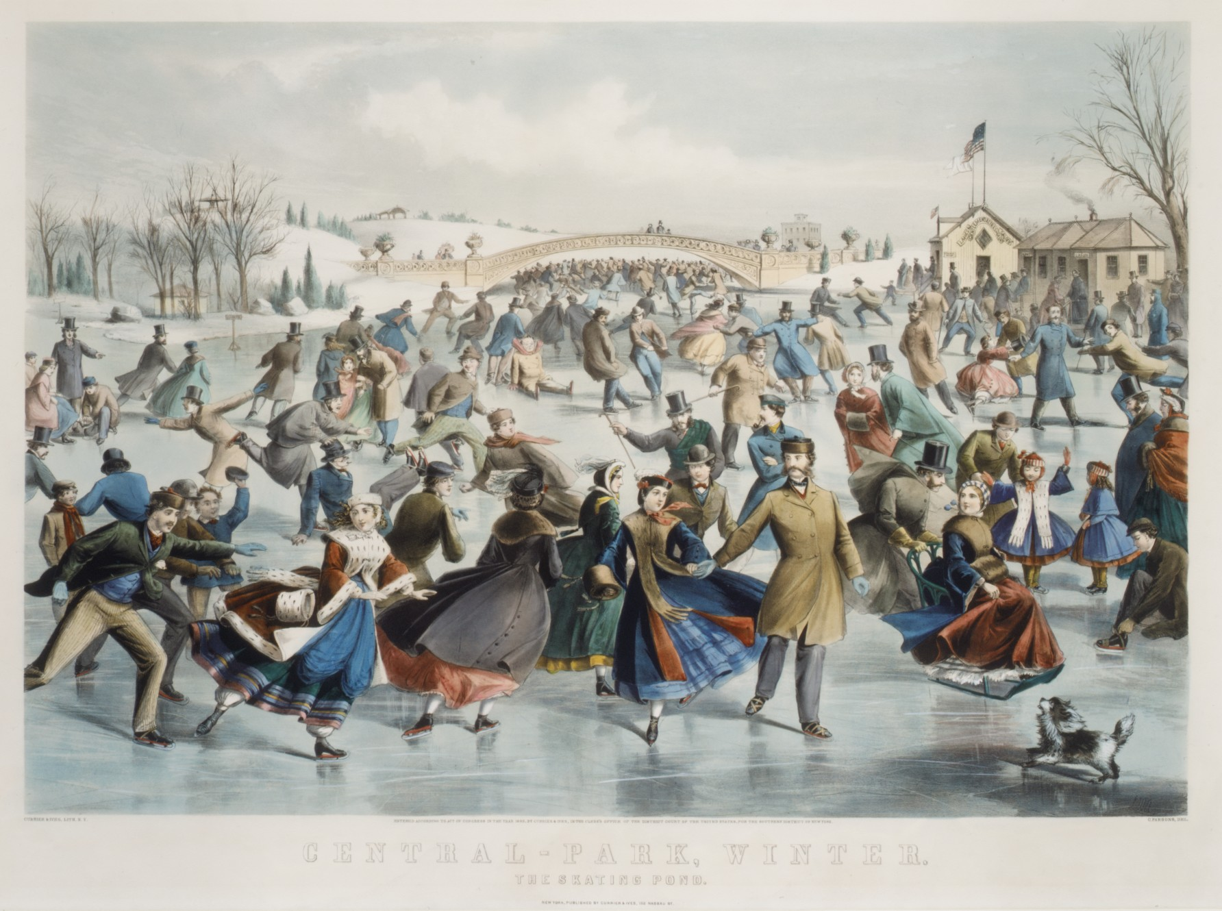 Print; Prints